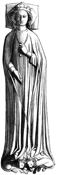 Effigy of Eleanor of Castile, queen of Edward I., in Westminster Abbey